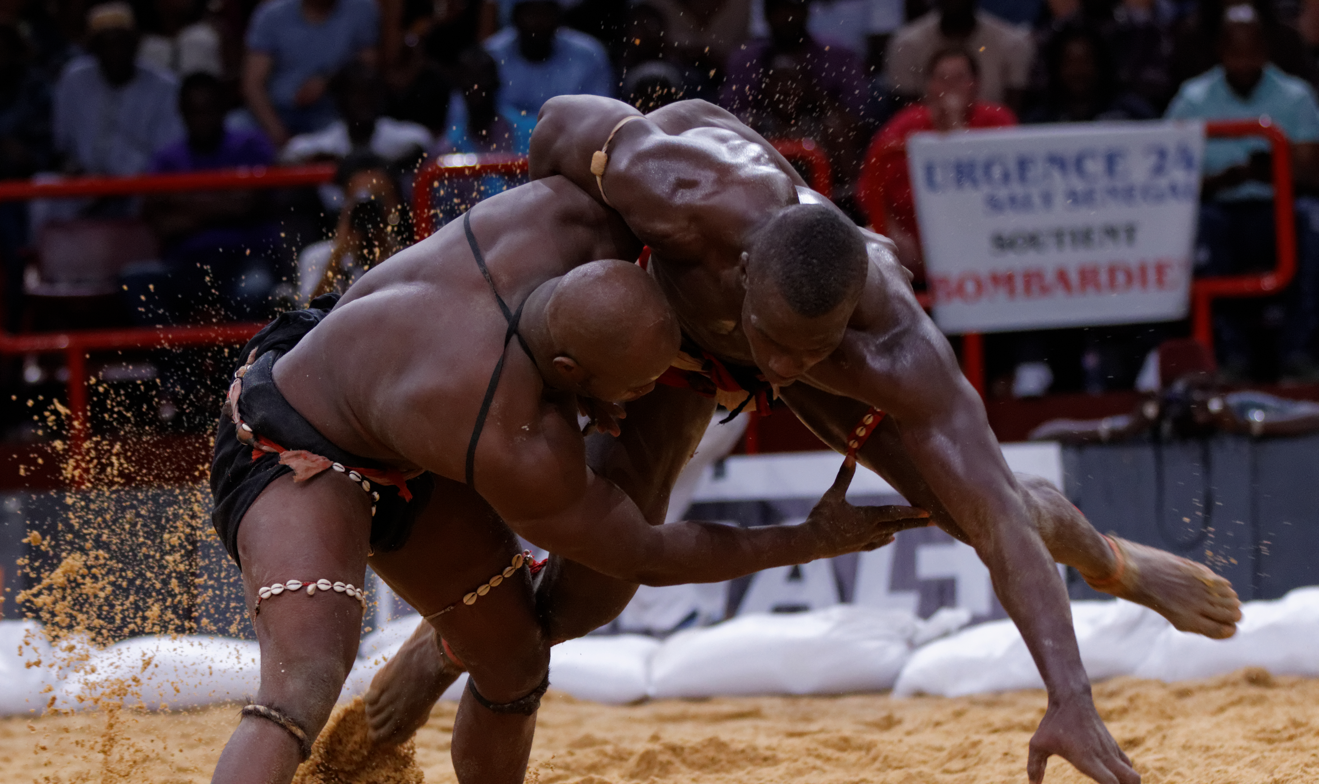 World African Wrestling world tour, Paris Bercy. Mame Balla vs Pape Mor Lô.